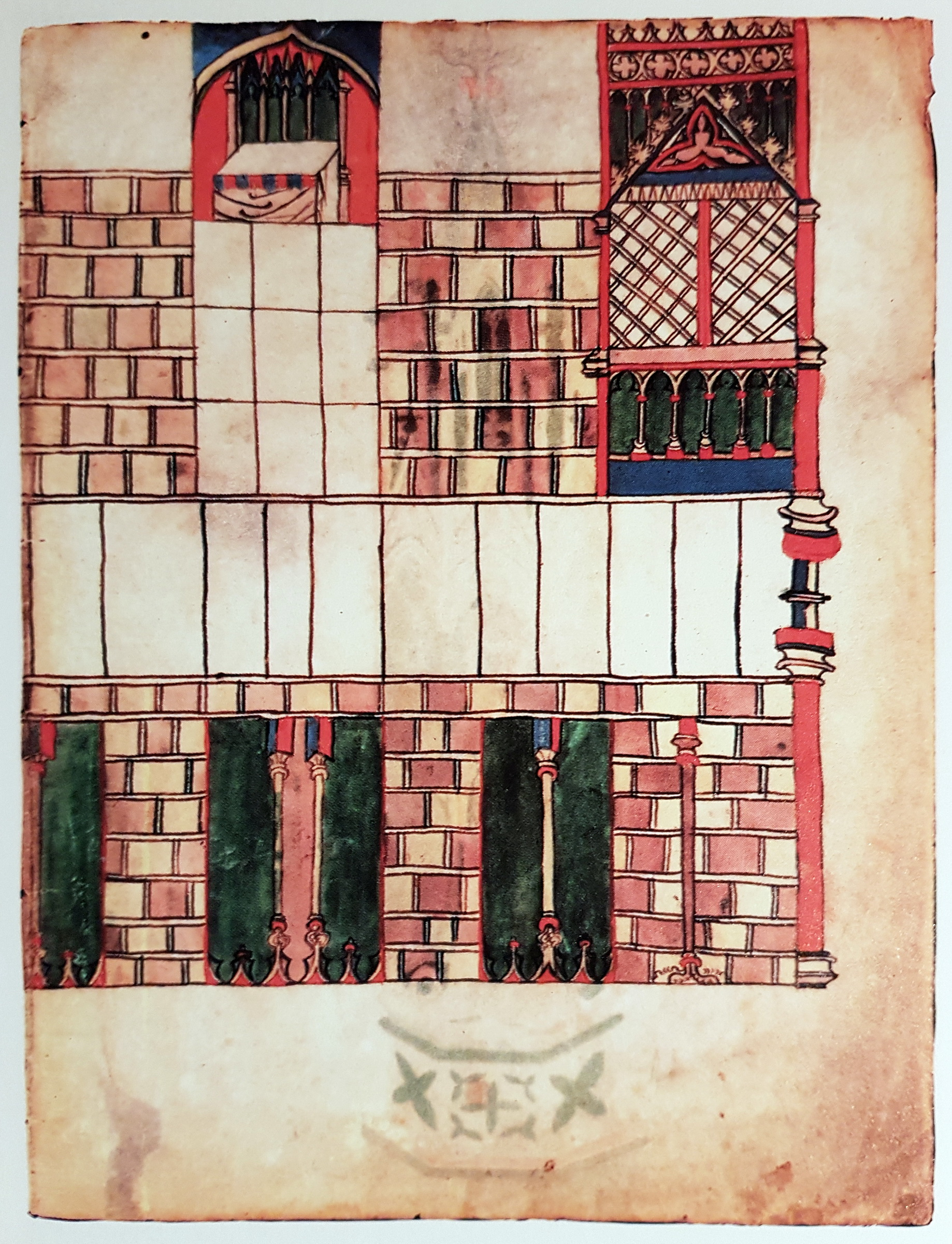 Architectural drawing (blueprint?) of the east corridor of the cloisters of the Basilica of Saint Servatius, Maastricht, the Netherlands. Top left: the Double Chapel. Top right: a 14th-century niche chapel in the cloisters. Ink on parchment, c. 1460-75. Drawings and prints collection GAM (City Archives of Maastricht).